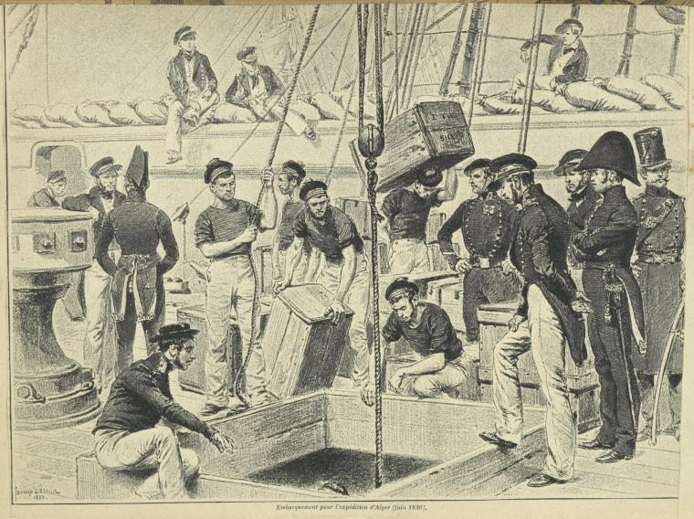 The French expedition embarks to Algiers, 1830